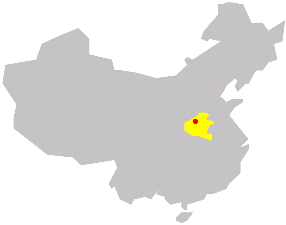 position of Luoyang in China